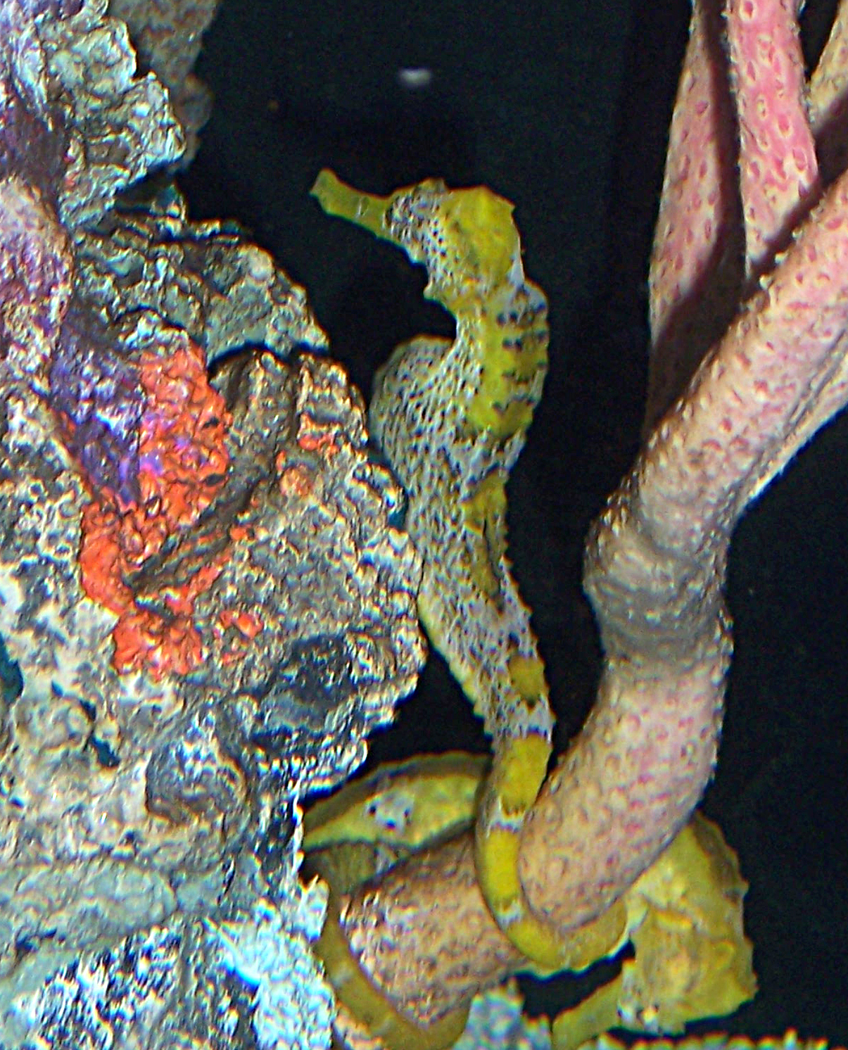 A longsnout seahorse at the National Aquarium in Washington DC